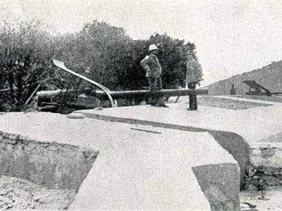 Old gun battery Ricardo Franco, in 1907. Armstrong Naval Gun, 120 mm, from cruiser Almirante Barroso of Brazilina Navy.